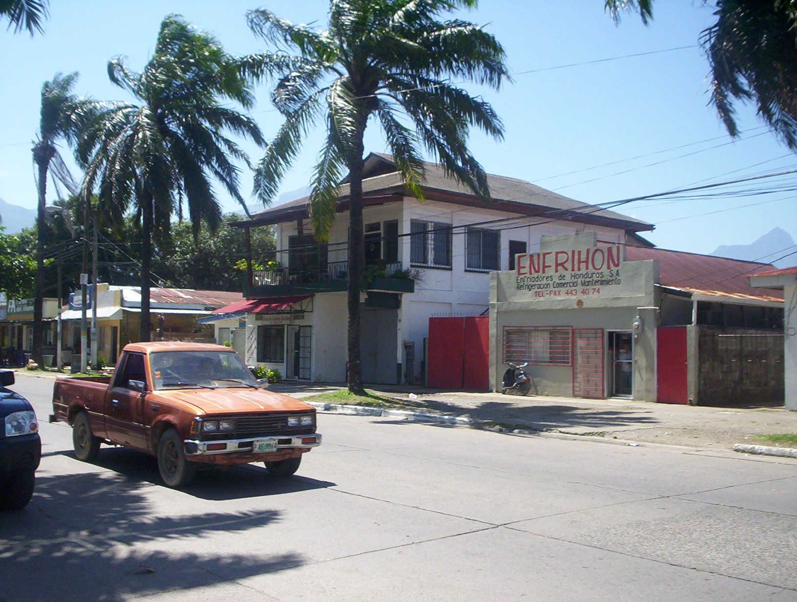 Buildings in La Ceiba, with Pico Bonito in the background — Honduras.